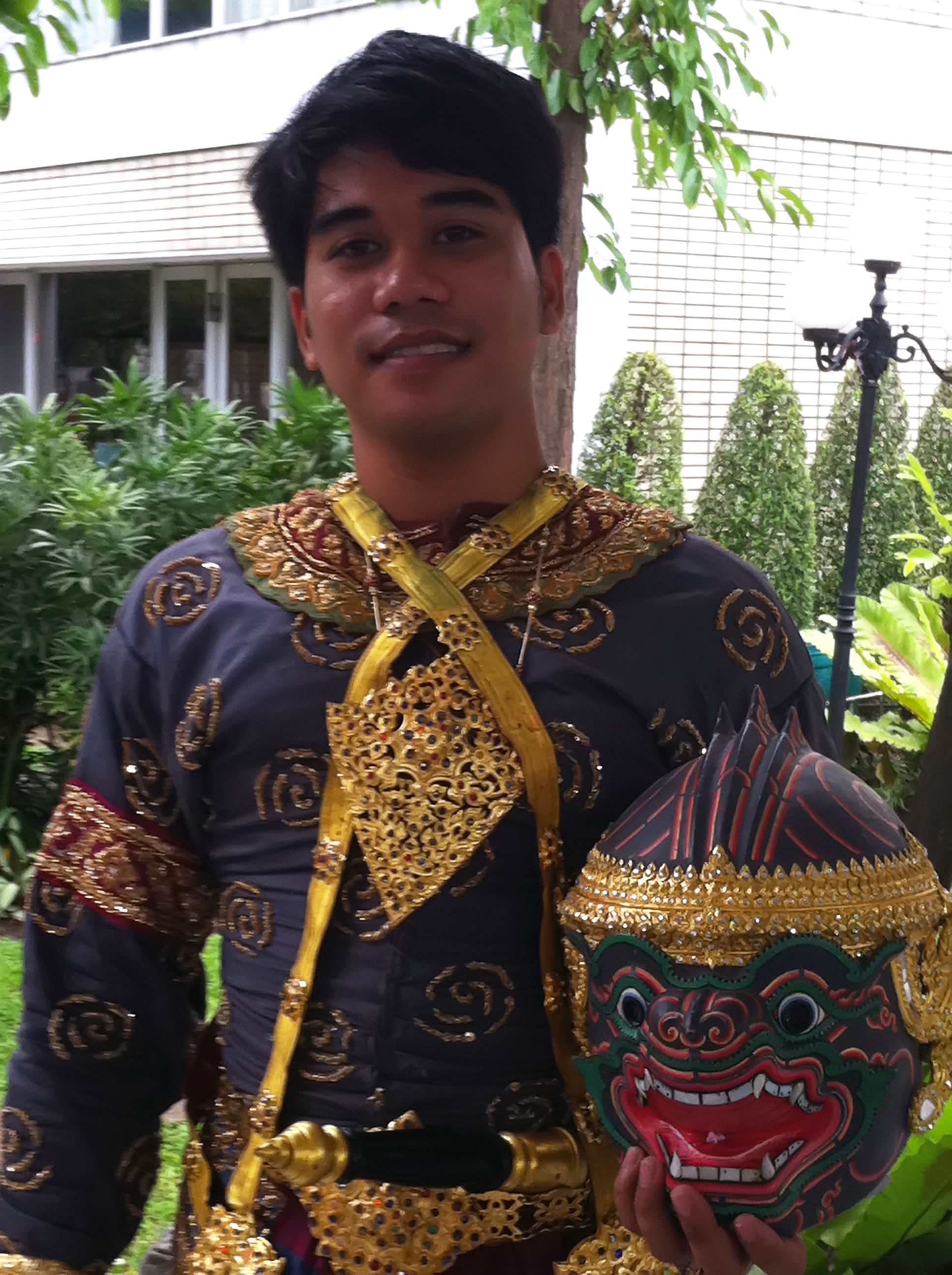 Actor Monkey form The Masked Play "The Battle of Maiyarap" 15th-31st July 2011, Main Hall, Thailand Cultural Center